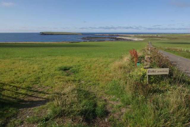 View towards Birsay Driving north on the B9056 the motorist is confronted with this breathtaking view towards the Brough of Birsay - seen here at its best on a cloudless summer evening. In Orkney, signs outside farm entrances are as likely to advertise jewellery as the more usual eggs and hay.